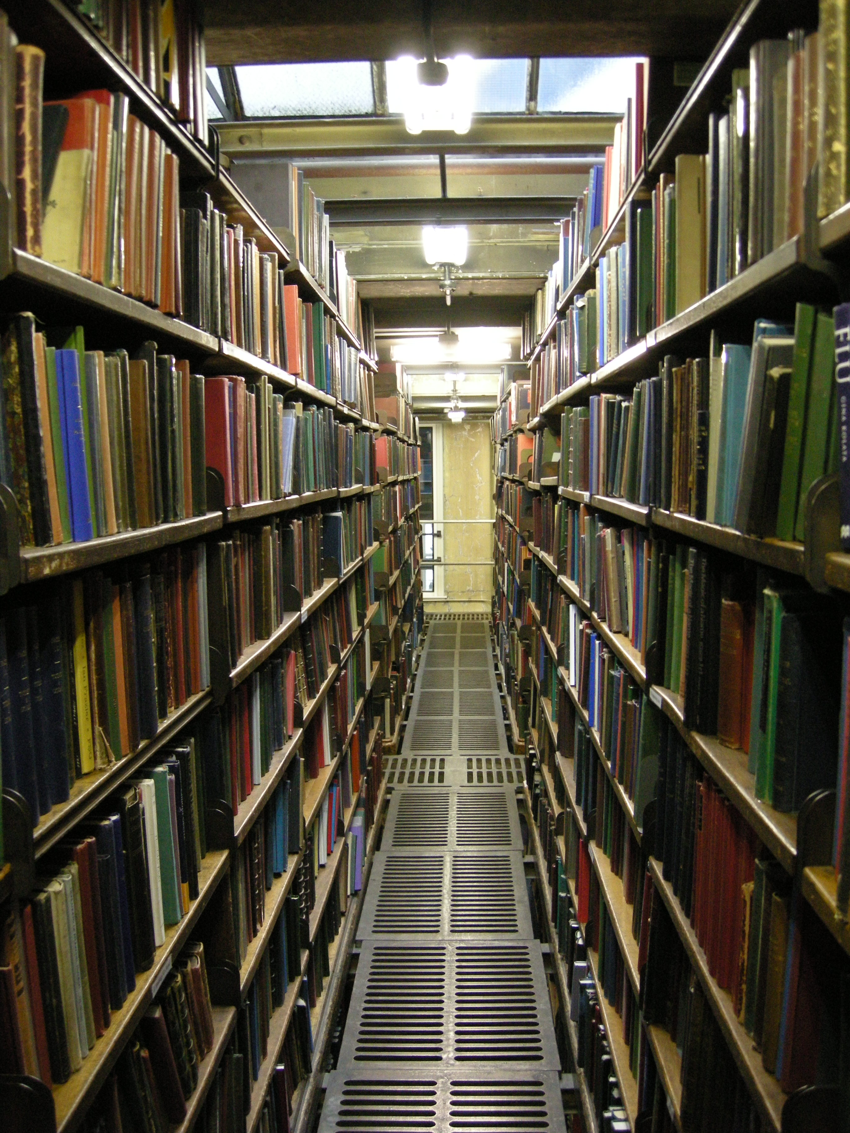 London Library bookstacks (1896–8 building).